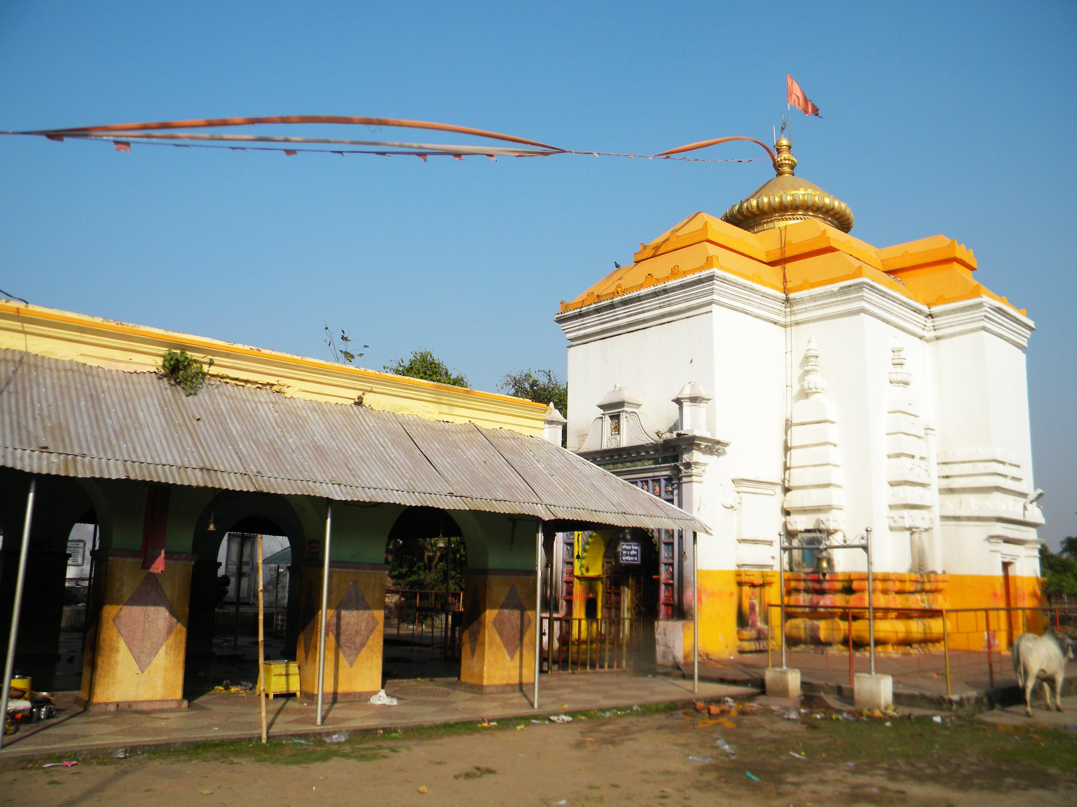 Ekteshwar Shiva Temple, Bankura, West Bengal, India